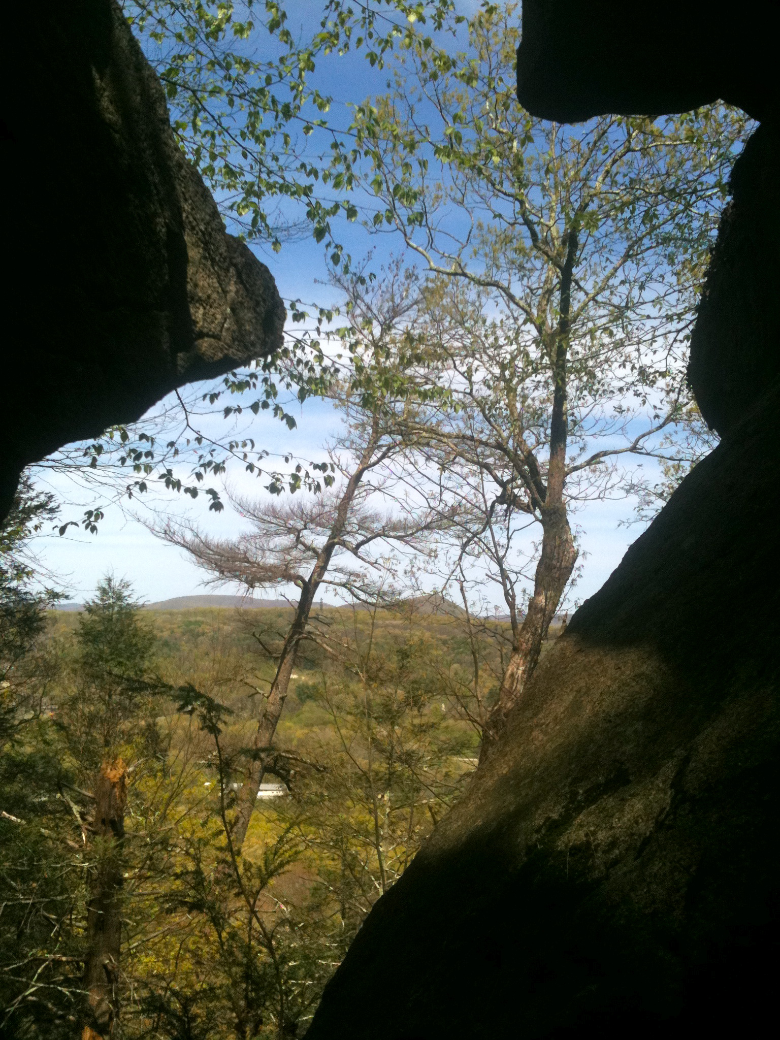 Housatonic Range Blue-Blazed Trail. Blue-Blazed CFPA linear foot path from Candlewood Mountain in New Milford and to Gaylordsville Cemetary in Gaylordsville. Housatonic Range CFPA Blue-Blazed Trail in New Milford. Housatonic Range Trail (AKA Candlewood Mtn Trail). Cave under "Kelly's Slide" on side trail.